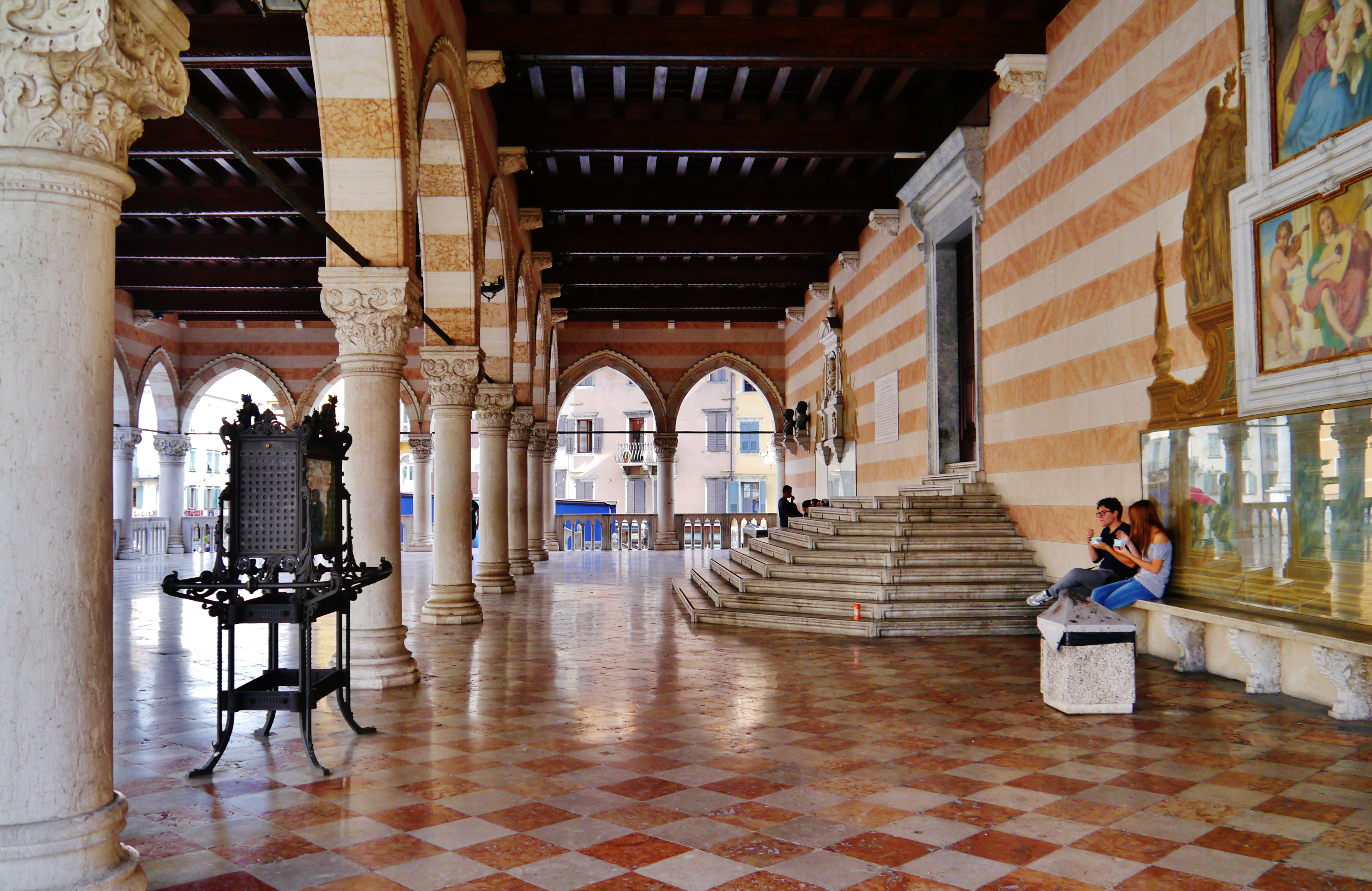 Lioggia del Lionello at the City Hall, Udine, Friuli-Venezia Giulia, Italy